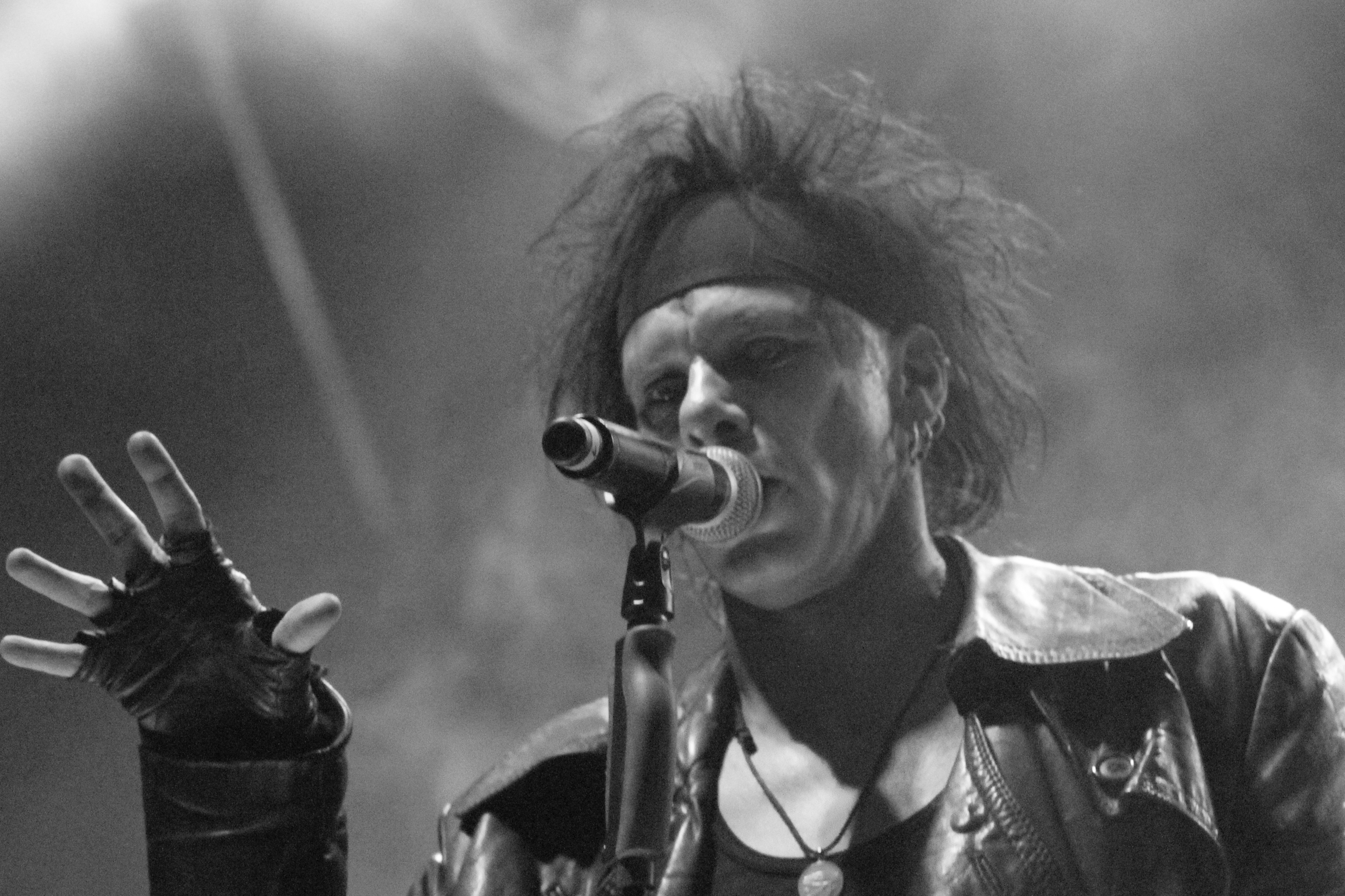 The Fair Sex at the Wave-Gotik-Treffen 2014.